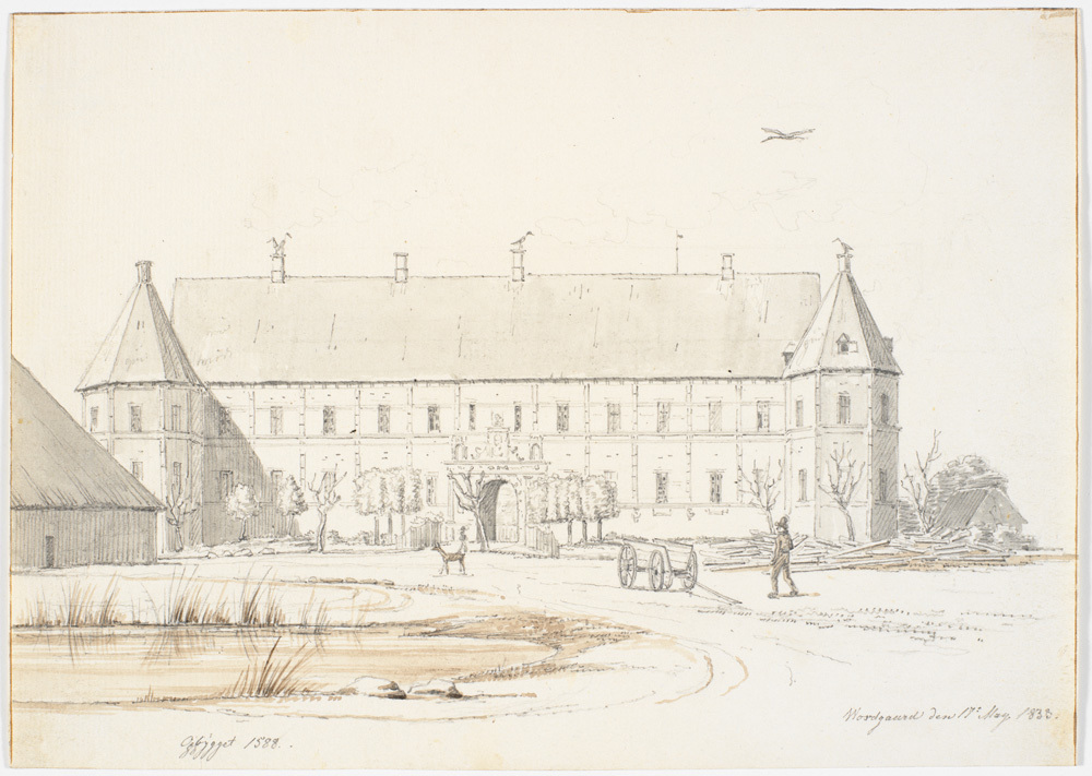 The front side of the castle Voergaard.